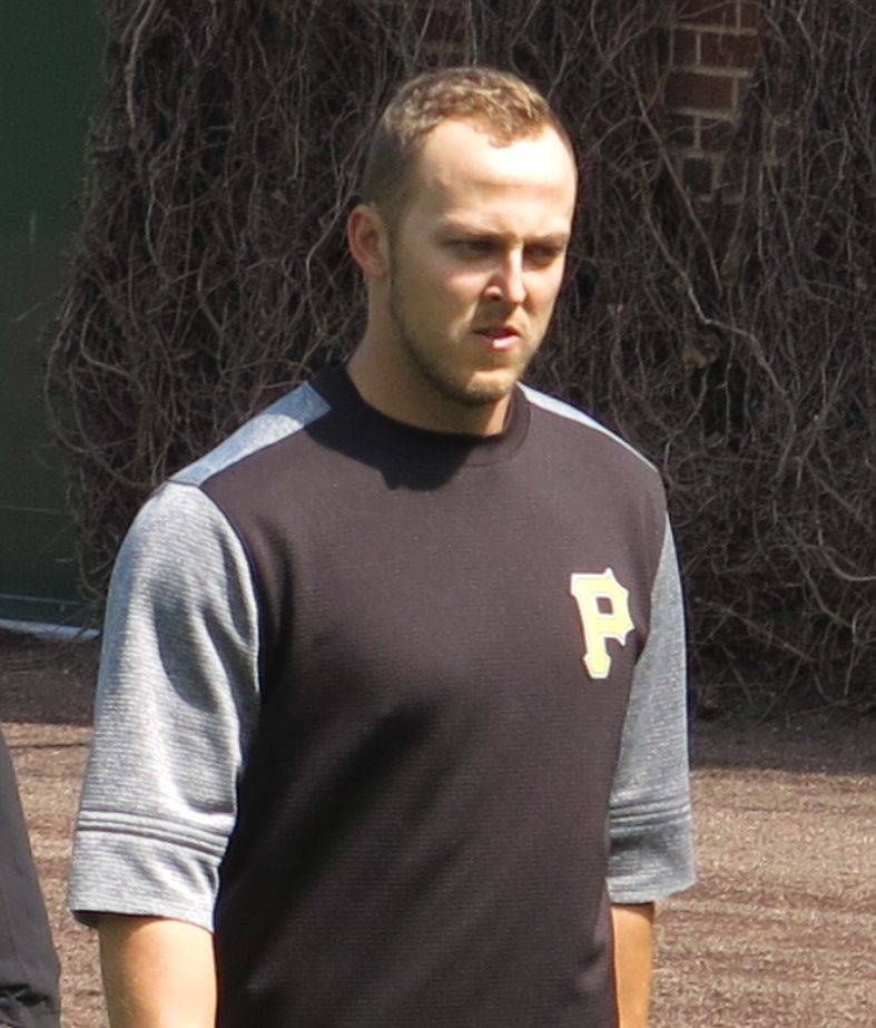 Jameson Taillon of the Pittsburgh Pirates, April 15, 2017.